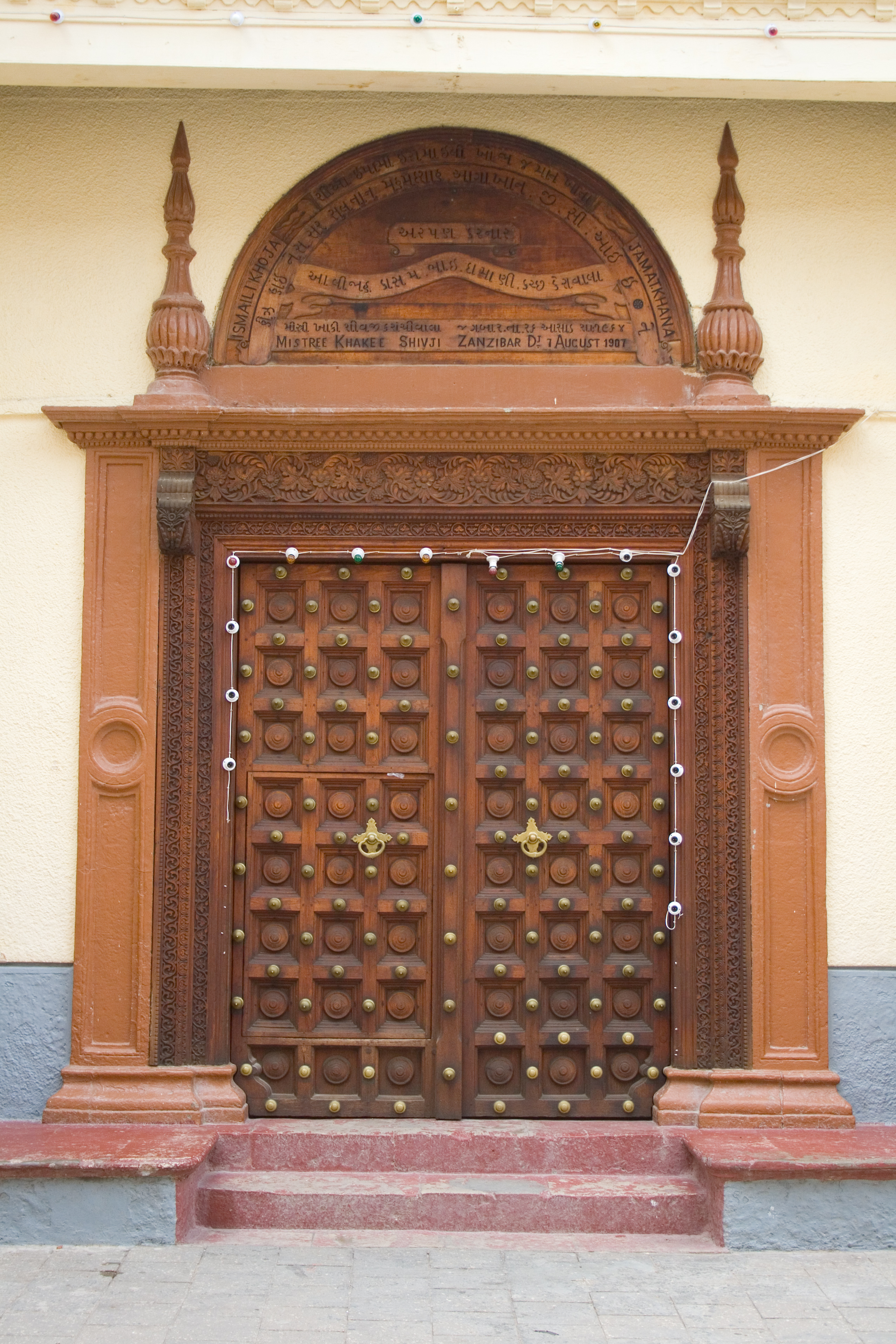 Carved wooden door — in Stone Town, Zanzibar City, Zanzibar.